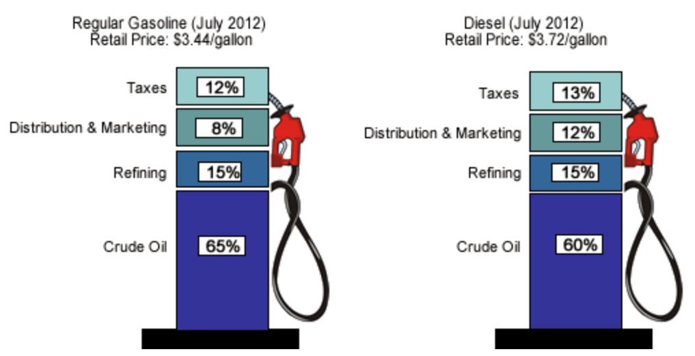 US gas and diesel prices July 2012 showing percentage source of costs.